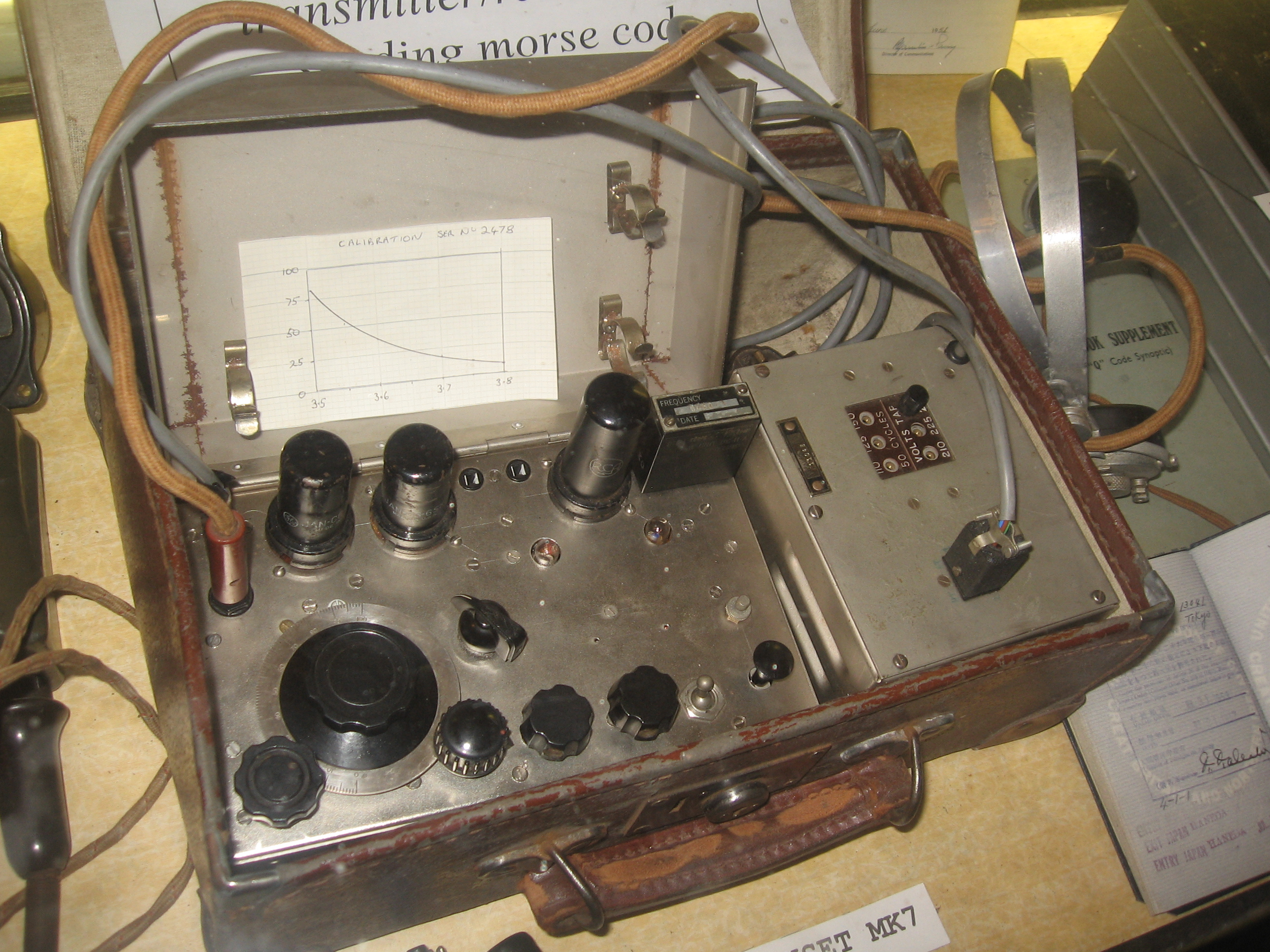 Wireless set in a suitcase for use by spies.